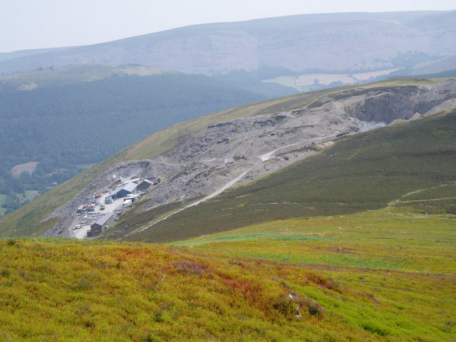 Berwyn Quarry. Slate quarry on the Llantysilio Mountains, above the Horseshoe Pass, near Llangollen.